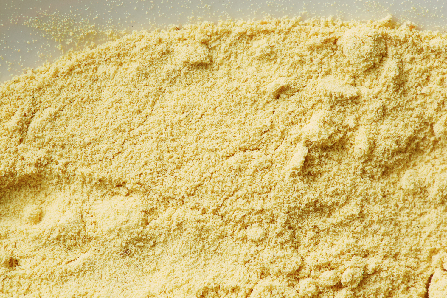 songhwagaru (pine pollen)